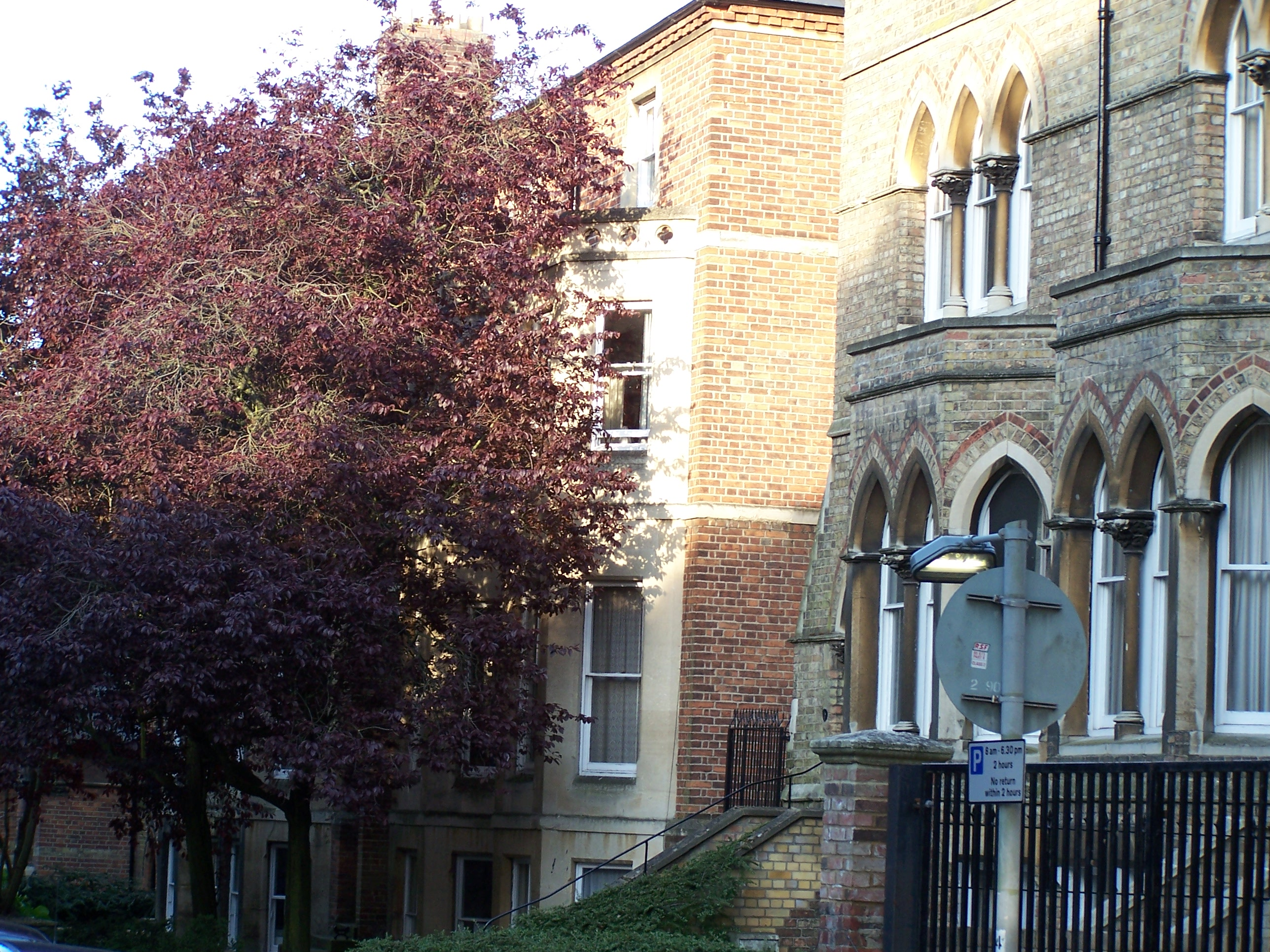 The south side west end of Bevington Road, Oxford, viewed from a traffic island